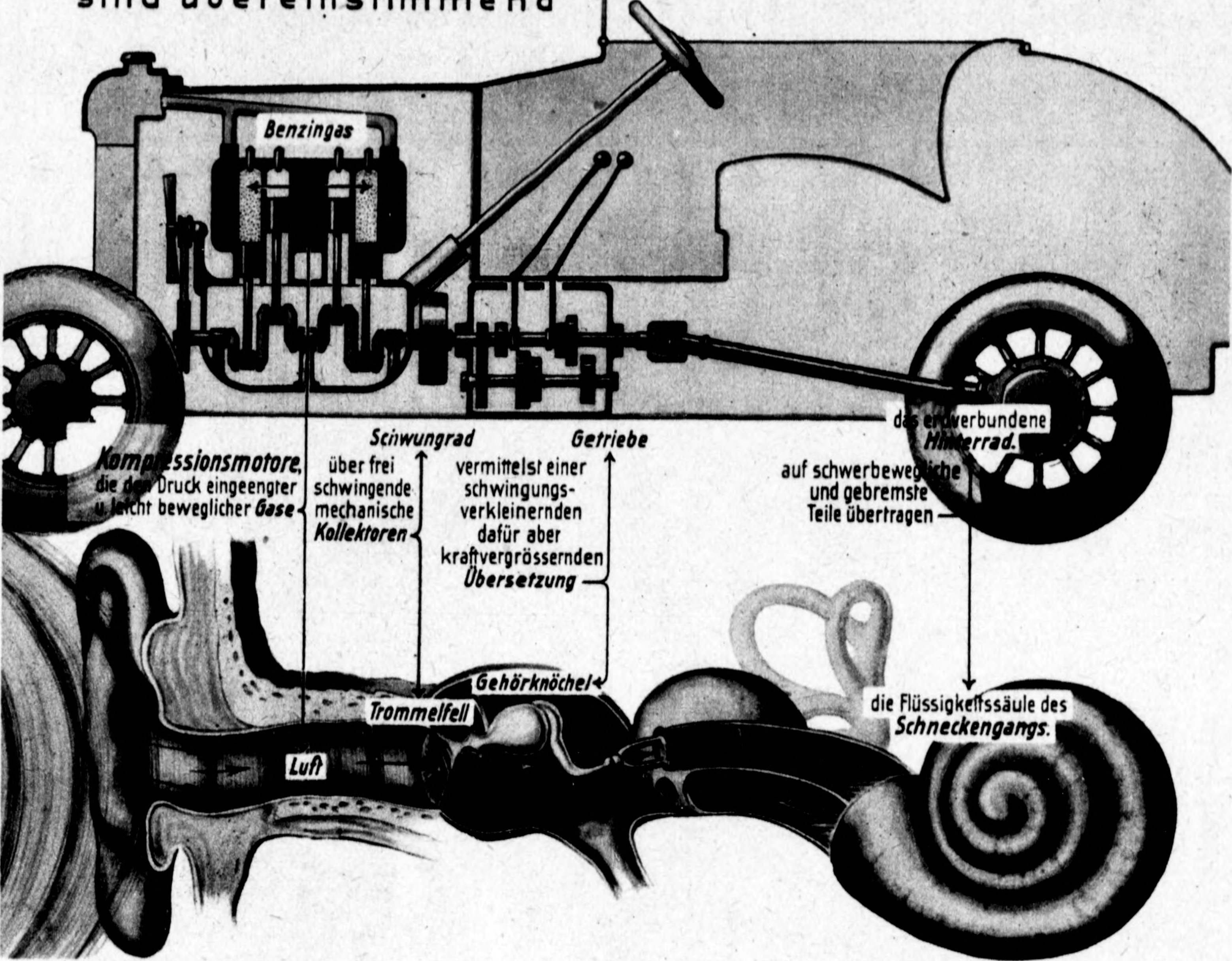 Title: Arthur and Fritz Kahn Collection 1889-1932 Year: [1] (s) Authors: Kahn, Arthur and Fritz Subjects: Kahn, Fritz 1888-1968; Kahn, Arthur David 1850-1928; Natural history illustrators; Natural history Publisher: Text Appearing Before Image: AUTO UND OHR sind übereinsrimmend Text Appearing After Image: ,,Das Leben des Menschen" ist unbestritten als einzigartiges, geradezu klassisches Meisterwerk anerkannt; es hat schlechterdings kein Gegensiüdc in der Welt' literatur. Es ist das Buch vom Menschen, ein Kulturwerk schlechthin, geschahen von einem geradezu genialen Volkspädagogen, der nicht nur Kenntnisse, sondern Bildung im besten Sinne und in gemeinverständlicher Form mit beumndernswerter ErfindungS' und Darstellungskraft ins Volk trägt. . . Das fabelhafte Gestaltungs- vermögen des Verfassers, sein blendender Stil, seine selbst die schwierigsten Probleme meisternde. Jedem verständliche Sprache, seine genialen Bilder machen das Studium dieses Werkes, das den höchsten Anforderungen der Wissen- schaft standhält, zu einem von Seite zu Seite sich steigernden Genuß • • • Wundervoll scharf, pointiert, witzig, oft spannend wie ein Roman, sind Kahns Schil- derungen irgendeines wissenschaftlichen Vorganges, von dem man gar nicht glaubt, daß er anders als trockenwissenschaftlich erörtert und erklärt werden könne. Und trotz dieser blühenden Phantasie, trotz dieser flüssigen Sprache, trotz der auf die Aufnahmefähigkeit des Laien bestimmten Bilder ist Kahns Werk wissenschaftlich unantastbar, weil es auf ein positives, universelles Wissen gegründet ist. Es ist der Extrakt, die höchste Zusammenfassung alles dessen, was die heutige Wissen- schaft über das Leben des Menschen erforscht hat. Das Werk, Düsseldorf DIE HAUT I in nalürlicher Größe, II in schwacher, III in mittlerer Vergrößerung. Nähere Erklärung im Text „Das Leben des Menschen Band 4 Seite 231 ff.